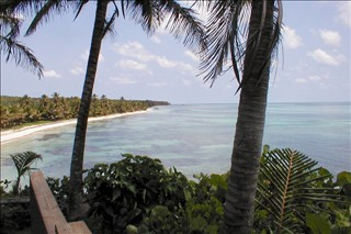 This is the back of little corn Island. This picture was taken from the Iguana Cafe's back seating area